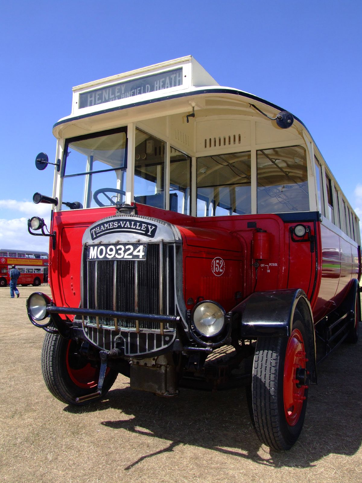 Thames Valley Traction bus 152, a Tilling-Stevens B9A with Brush bodywork, at Worthing Bus rally and running day in Shoreham-by-Sea